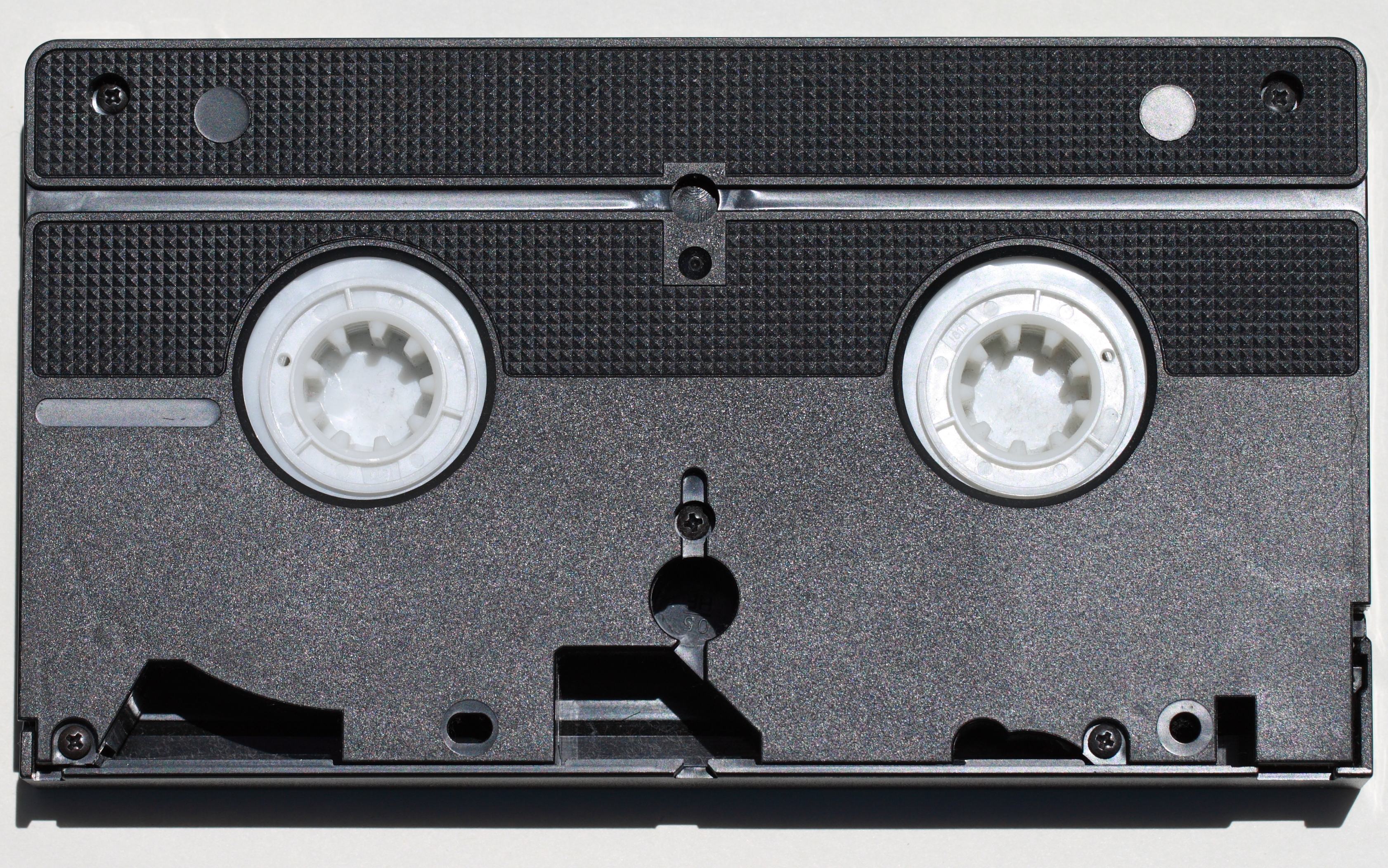 VHS cassette tape